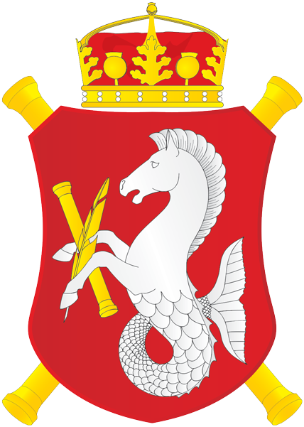 Middle Coat of Arms of the Macedonian Heraldry Society